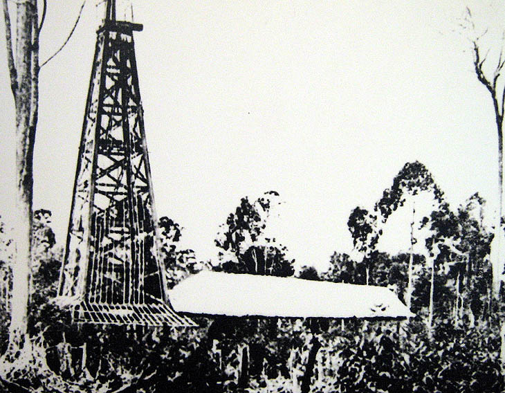 The first oil rig in Miri on Canada Hill also nicknamed as "Grand Old Lady" at Miri Well No 1.